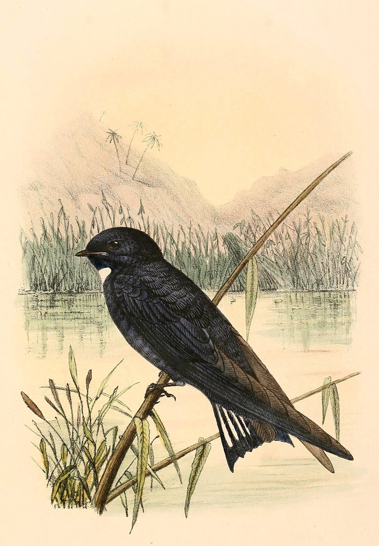 « Hirundo nigrita » = Hirundo nigrita (White-bibbed Swallow)